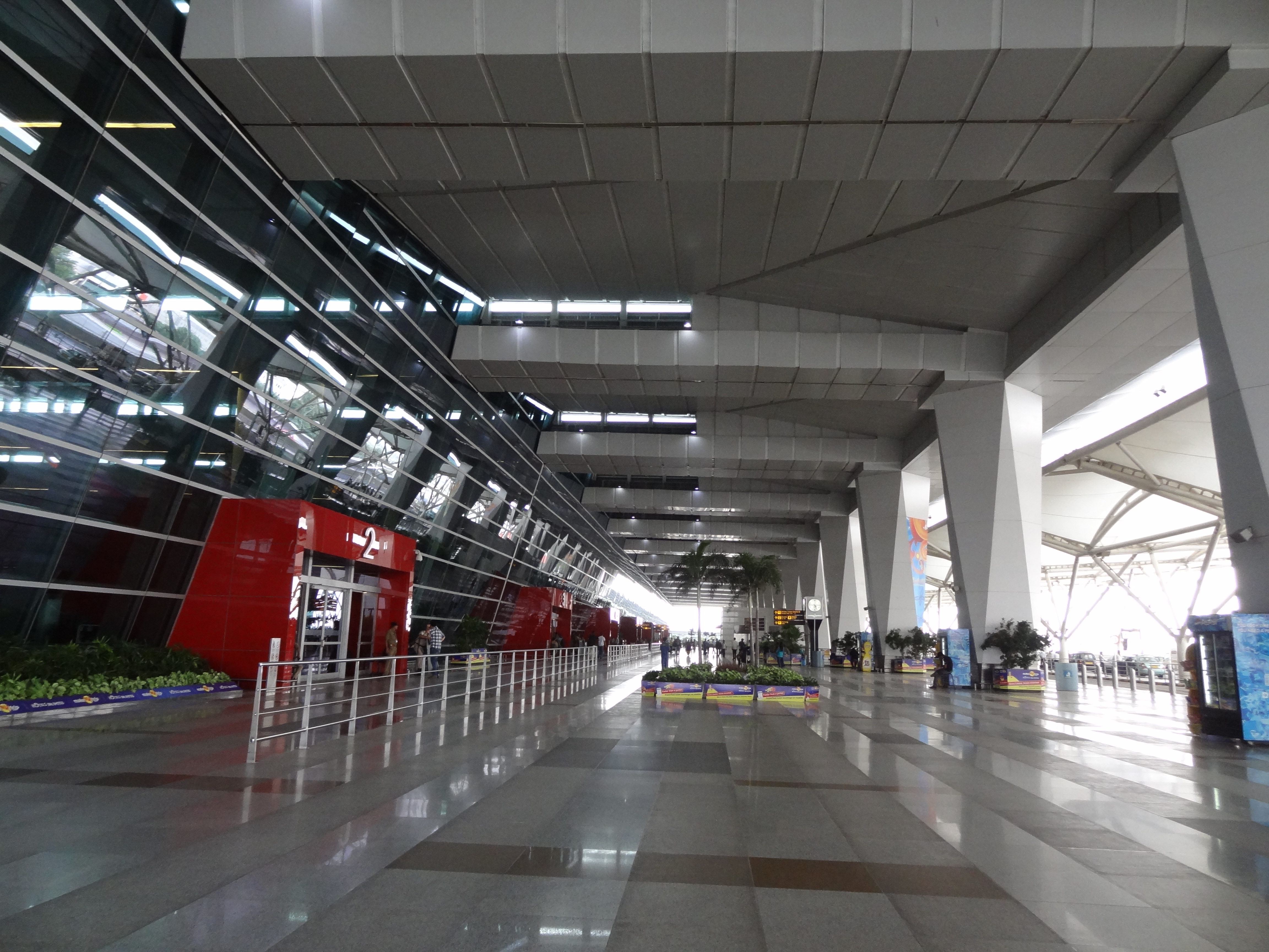 Indira Gandhi airport- New Delhy- India